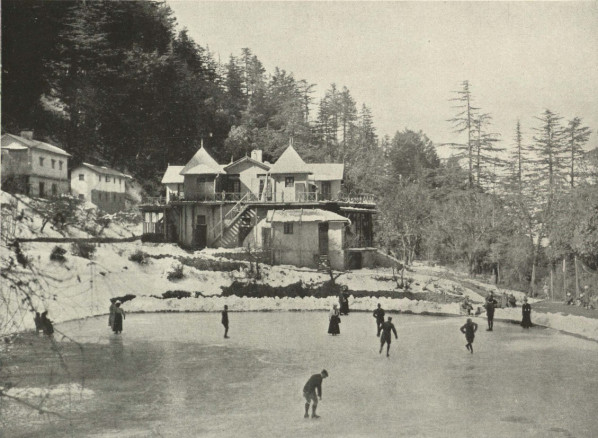 Skating at Simla one of the favorite winter recreations